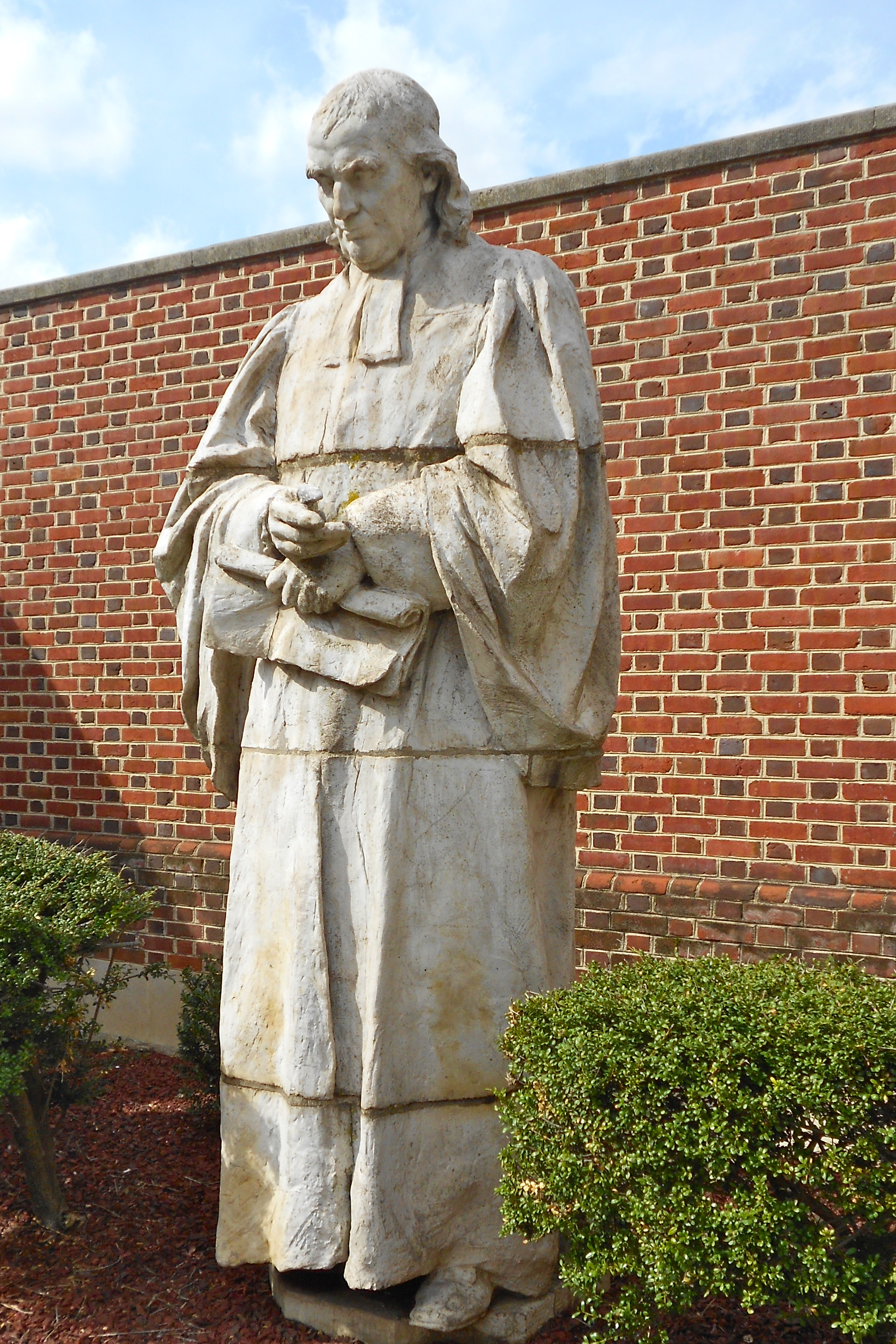 18969sculpture of John Witherspoon by Alexander Stirling Calder, was on the facade of the Witherspoon Building (near Philadelphia City Hall) until 1961. Now displayed in the courtyard of the Presbyterian Historical Society at 425 Lombard Street, Philadelphia, not too far from Independence Hall. One of six similar sculptures by AS Calder at the PHS. This one is displayed 2nd from the left (looking at the building entrance)